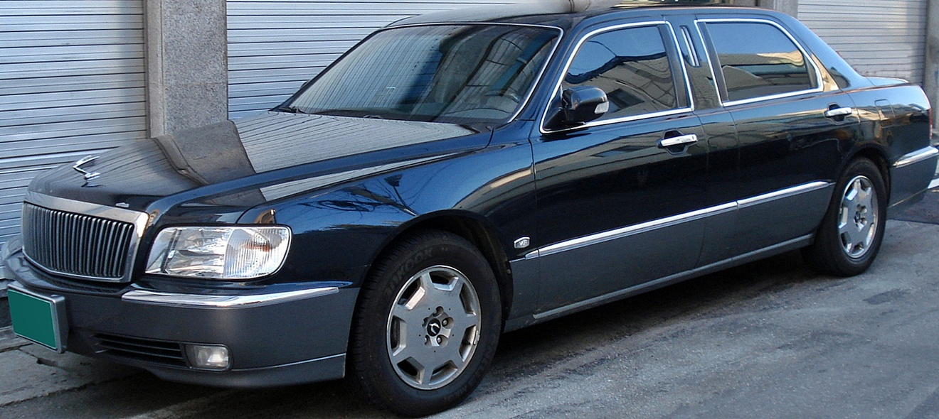 Hyundai Equus Limousine